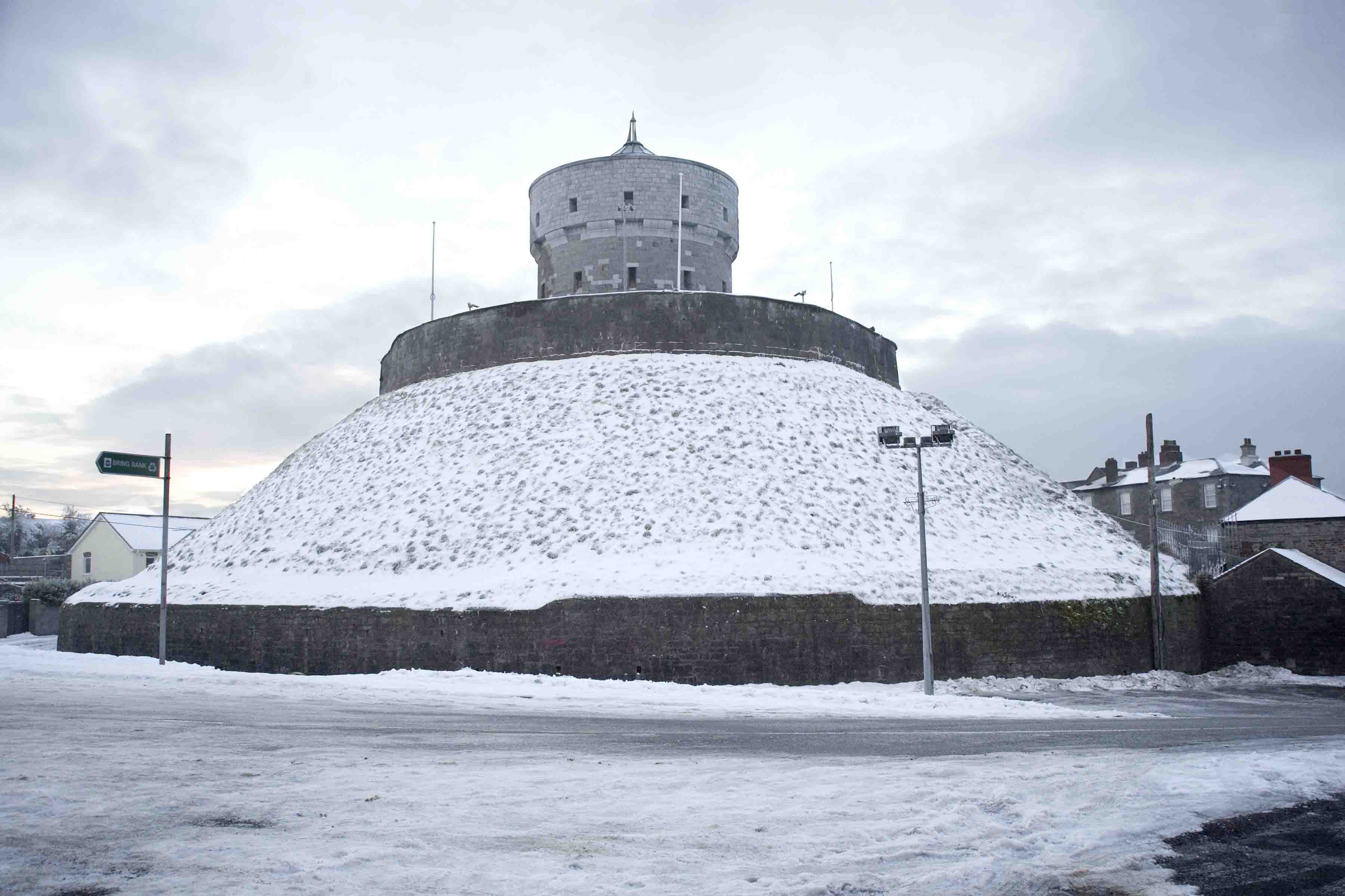 monument